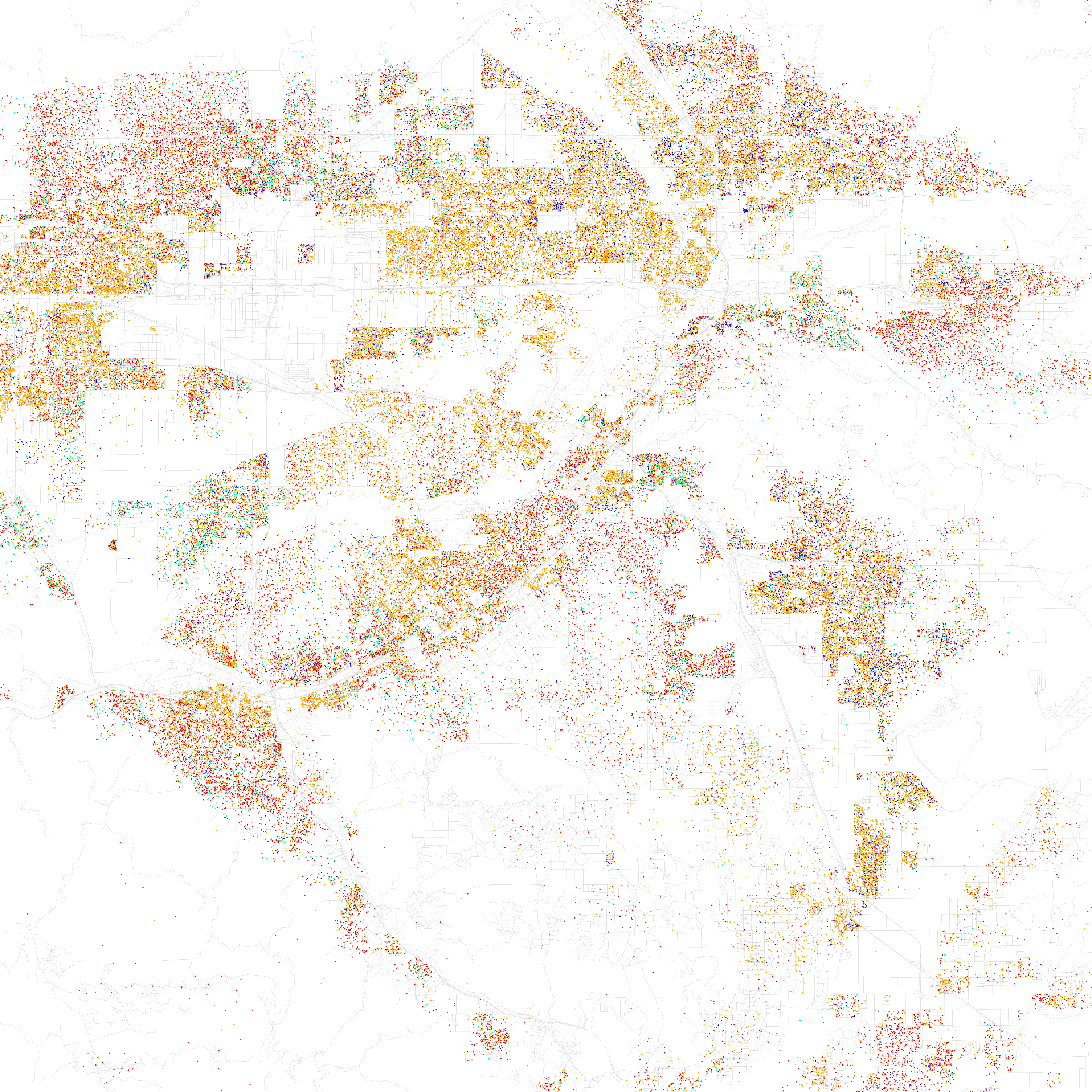 Maps of racial and ethnic divisions in US cities, inspired by Bill Rankin's map of Chicago, updated for Census 2010. Red is White, Blue is Black, Green is Asian, Orange is Hispanic, Yellow is Other, and each dot is 25 residents. Data from Census 2010. Base map © OpenStreetMap, CC-BY-SA